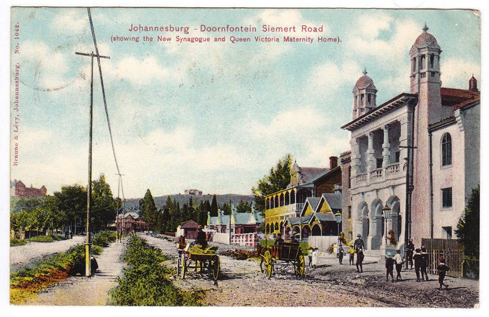 Scan of old postcard. On postcard is a painting of Doornfontein Siemert Road in Johannesburg, which depicts two horse and buggies on the road, people walking to the right of the street, and buildings, including the New Synagogue and Queen Victoria Maternity Home. There are power or telephone lines depicted on the left of the street, a mountain visible in the back, and the buildings on the right. There is text overlaid on the painting. At the top in red text it reads "Johannesburg - Doornfontein Siemert Road (showing the New Synagogue and Queen Victoria Maternity Home)". Along the left side, also in red, it reads, "Braune and Levy, Johannesburg. No. 1042." The painting itself dates from between 1904-1906. The date of publication of the postcard is unknown. The postcard shows sign of age and wear, including circular indentations in the top left, yellowing, and worn corners.